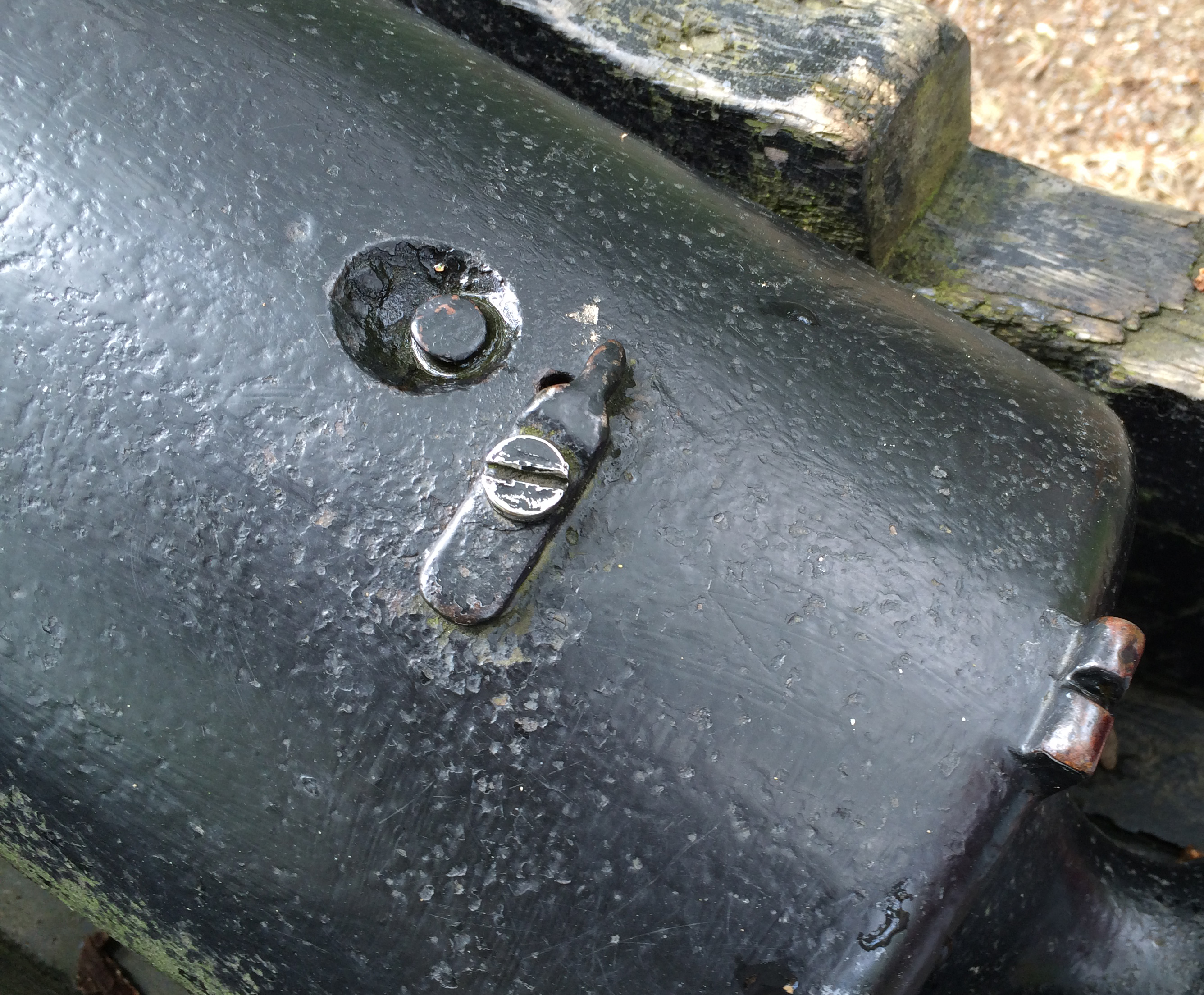 Breech end of a small 19th century salute cannon, showing the flash pan with the touch hole spiked for safety reasons, From Rød Mannor, Halden, Norway.